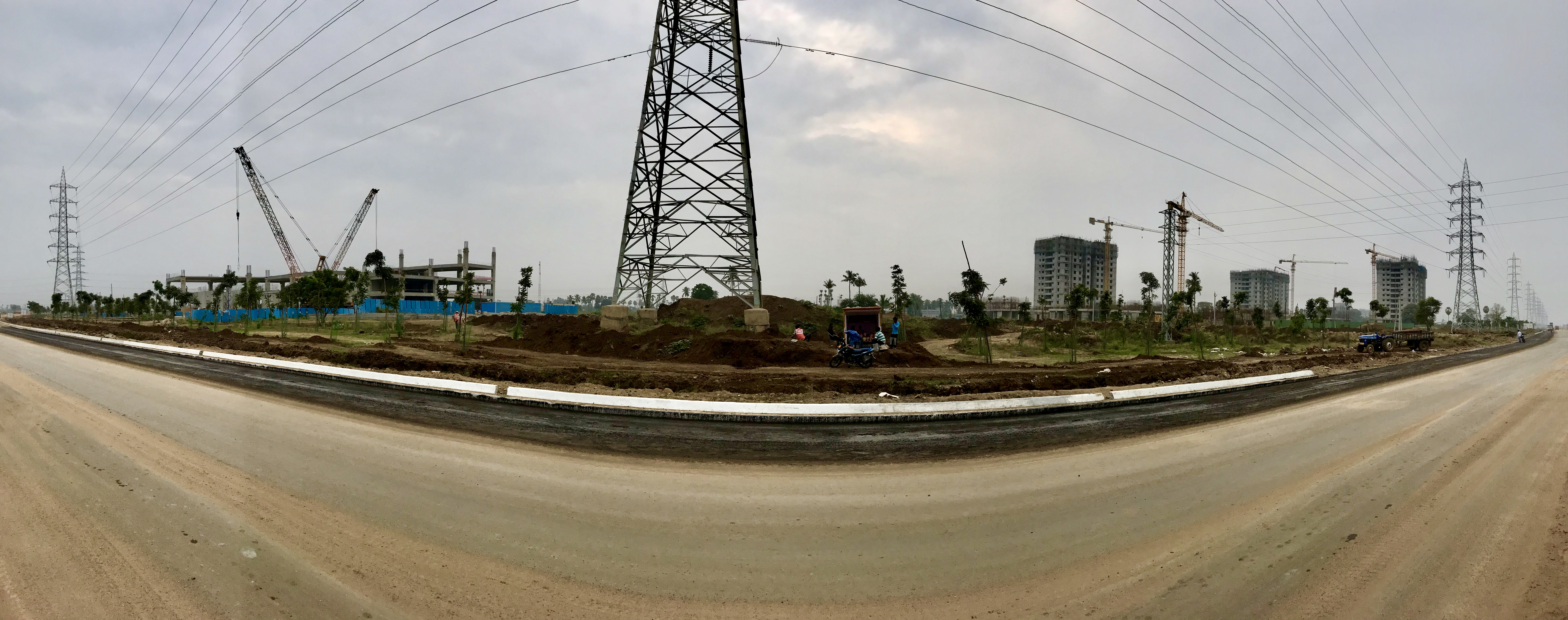 Amaravati Greenfield capital city construction works as on November 2018